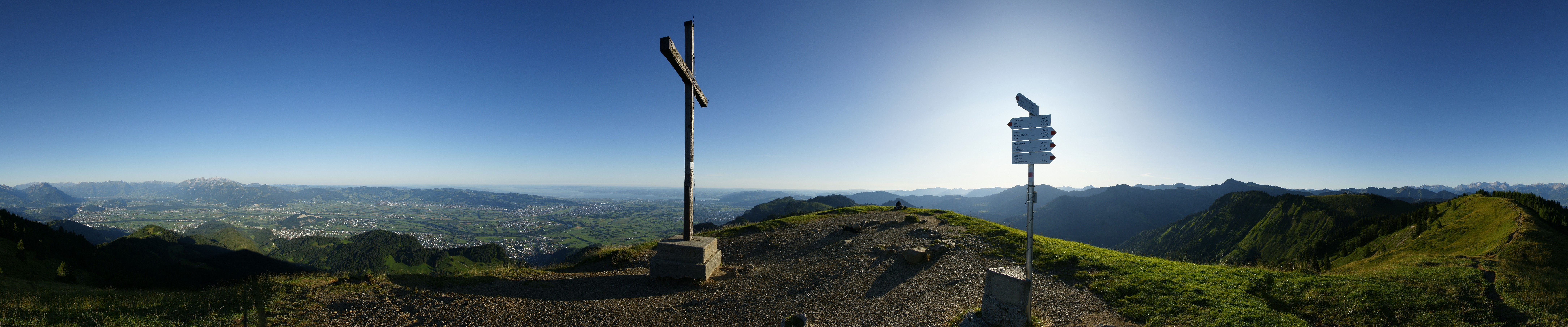 6 clock 30, 360 ° panorama from the summit tomorrow in the Hohe Kugel, whether Götzis. Look in the lower Rhine Valley, on Diepoldsau nestled between the new and old Alpenrhein. The towns in Vorarlberg Feldkirch, Hohenems, Dornbirn and Bregenz on Lake Constance. You can see also the Bregenzerwald Mountains, the Rätikon, the Swiss Alvier group that Churfirsten, and the Alpstein Mountains. NOTE: This image is a panorama consisting of multiple frames that were merged or stitched in software. As a result, this image necessarily underwent some form of digital manipulation. These manipulations may include blending, blurring, cloning, and colour and perspective adjustments. As a result of these adjustments, the image content may be slightly different from reality at the points where multiple images were combined. This manipulation is often required due to lens, perspective, and parallax distortions.